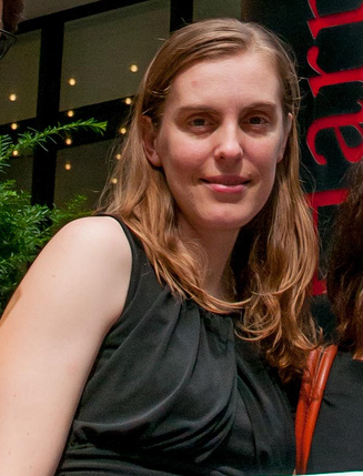 cropped verision for infobox